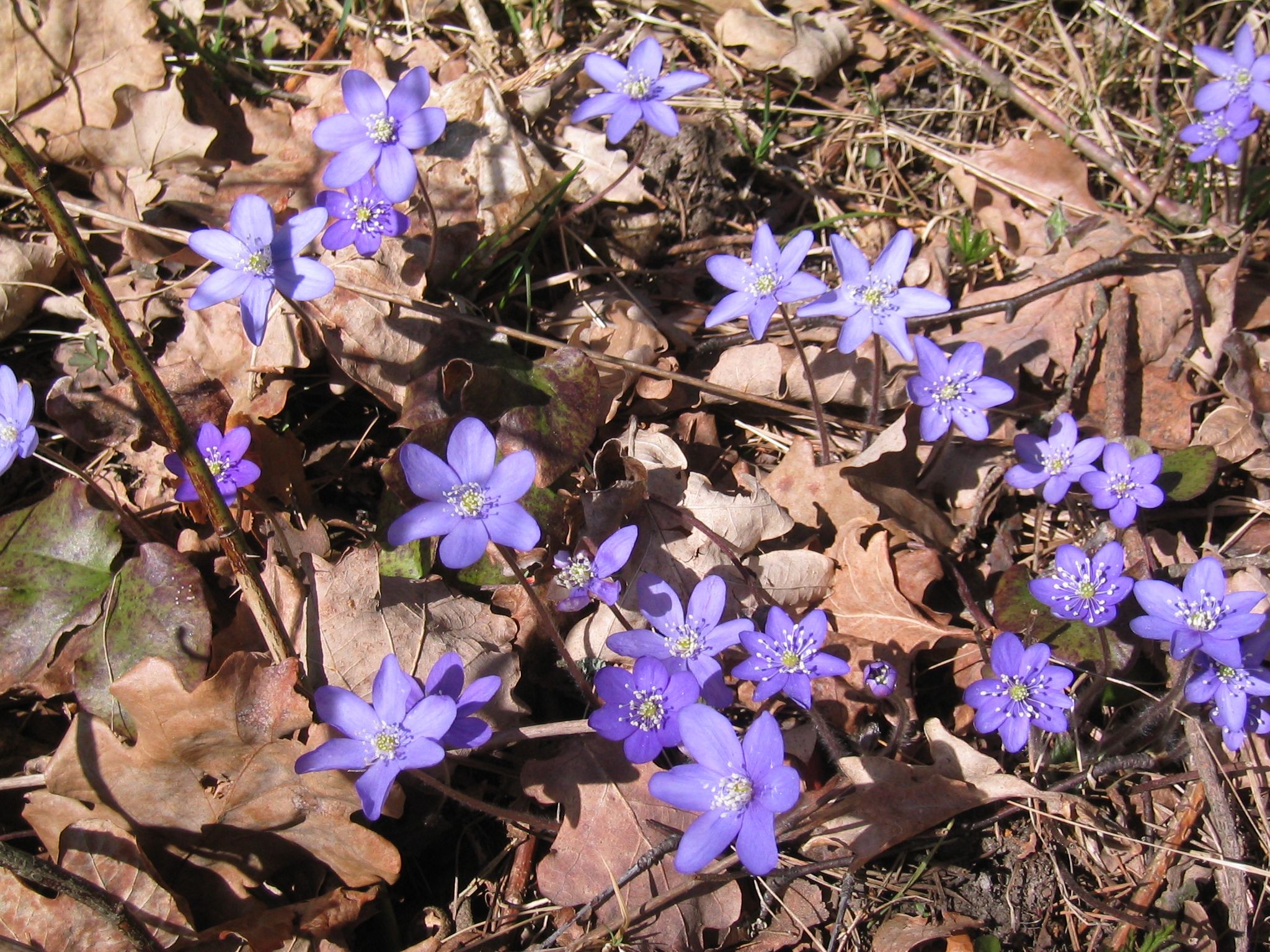 Hepatica nobilis (sinivuokko in Finnish) blossoms in mid April in Ruissalo, Turku, Finland.